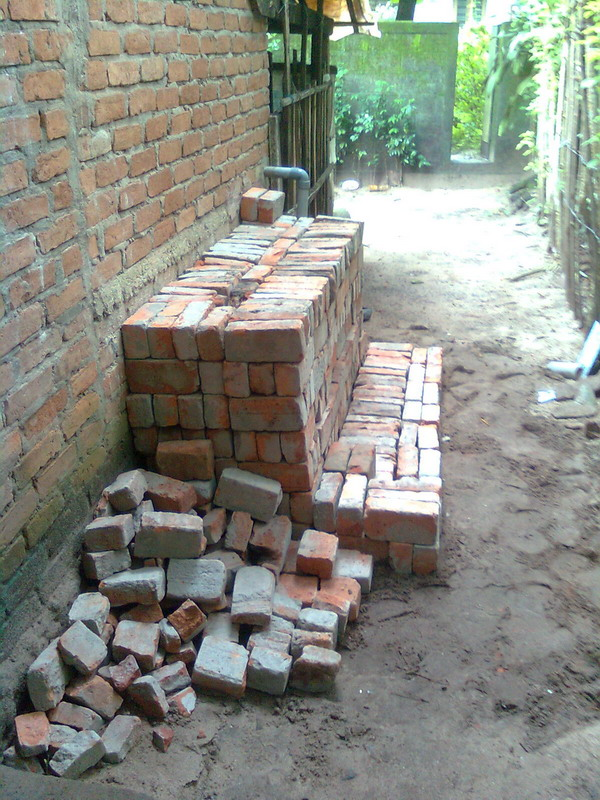 Red Brick Wall and Stacked Bricks